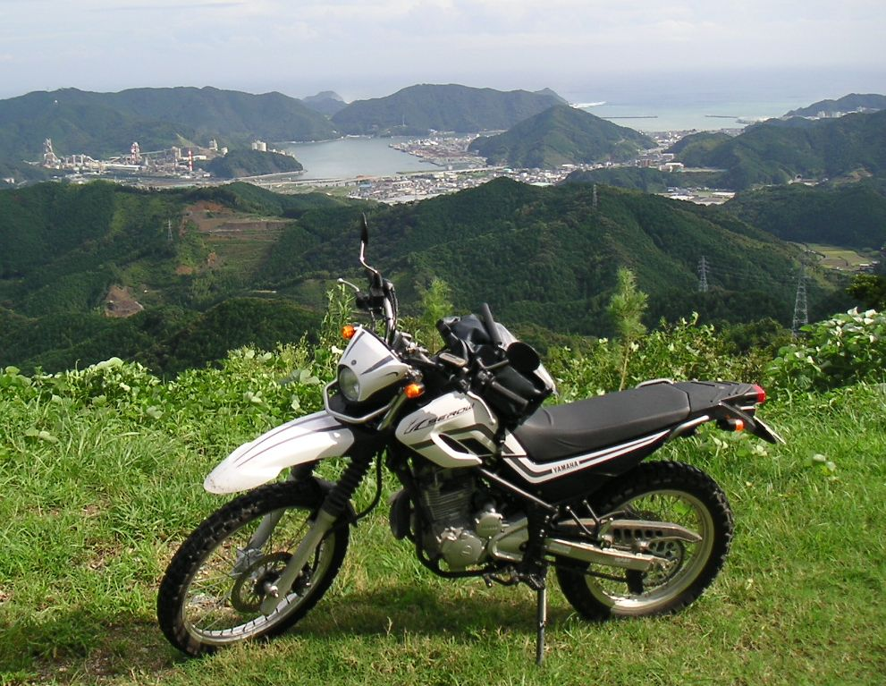 Yamaha Serow 250 (Japanese 2005 Model)